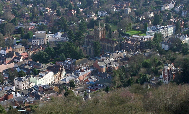 Great Malvern Town Centre Viewed from Lady Howard de Walden's Drive on the east side of North Hill. This is where the tiny village grew around the gatehouse of the priory. In the late 18th century it grew in popularity with several large houses being built along the Worcester road. When the "Water Cure" came to Malvern in the 1840s there was a rapid expansion. This in turn attracted many boarding schools to settle her. This in turn attracted the scientists who took over Malvern College during World War II. The research establishment caused further expansion and many scientific spin-off companies that makes Malvern what it is today.